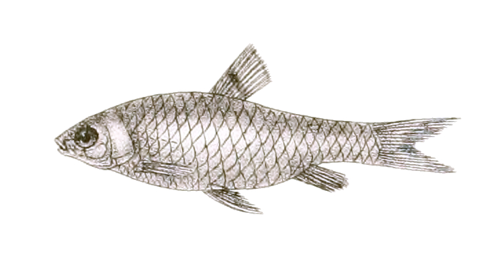 The species names / identity need verification - original names from plate are included here. The original plates showed the fishes facing right and have been flipped here. Barbus vittatus